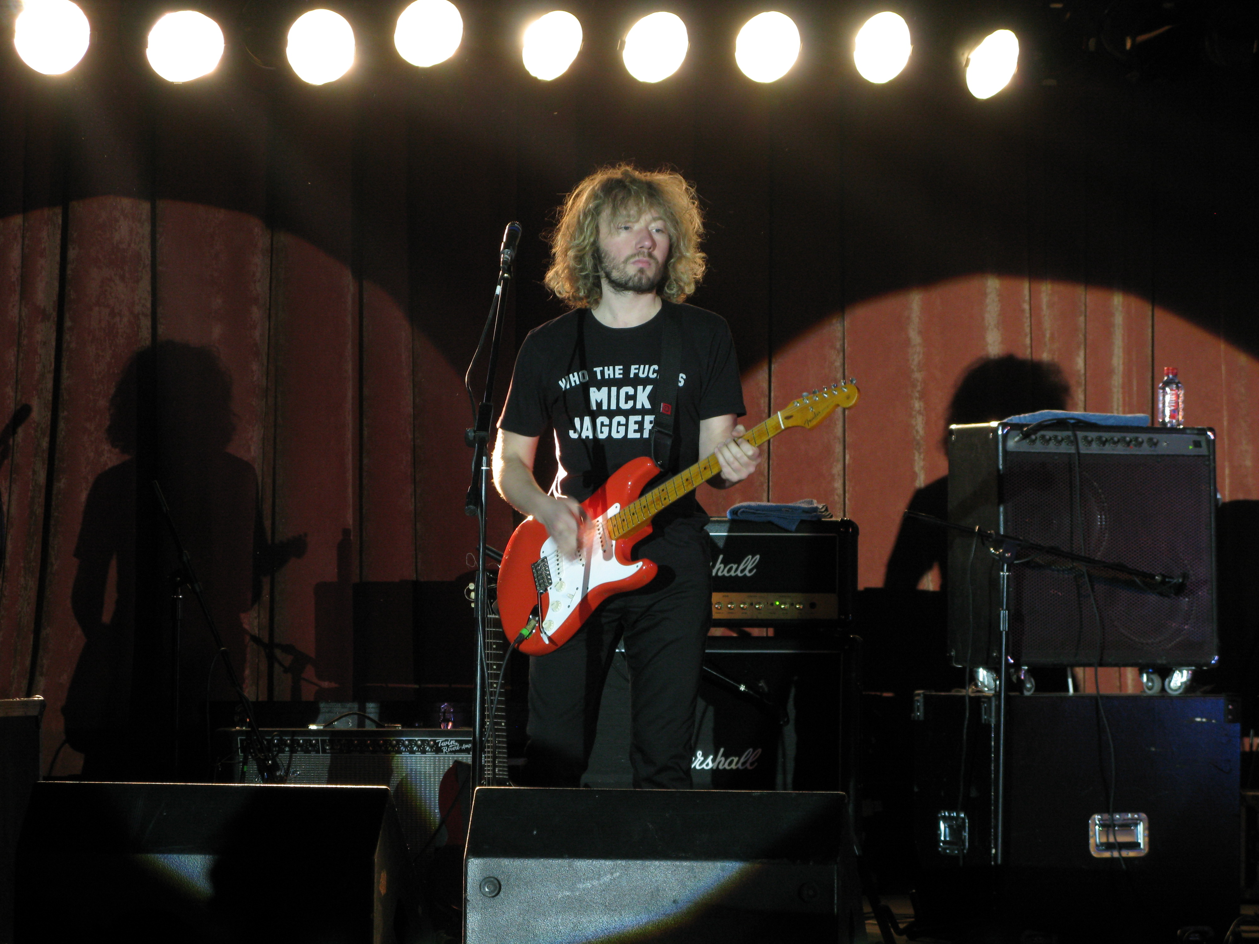 Yuri Tsaler playing guitar on the concert